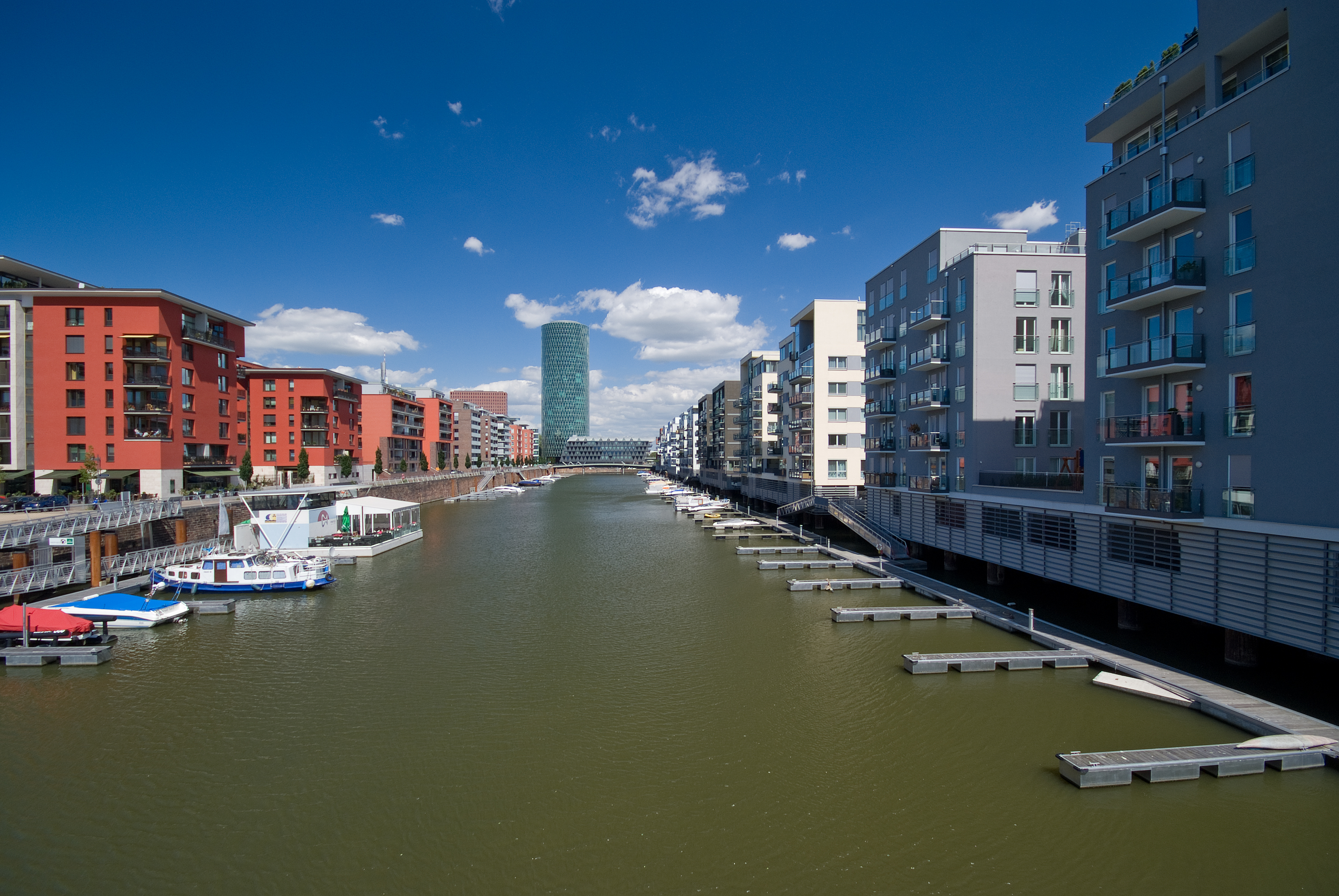 Frankfurt Westhafen, view from west. The Westhafen is an urban district in Frankfurt am Main, formerly a river port and now a modern residential quarter